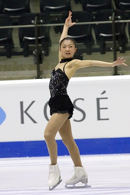 Junior World Championships 2015 (Kaori SAKAMOTO JPN – 6th Place)